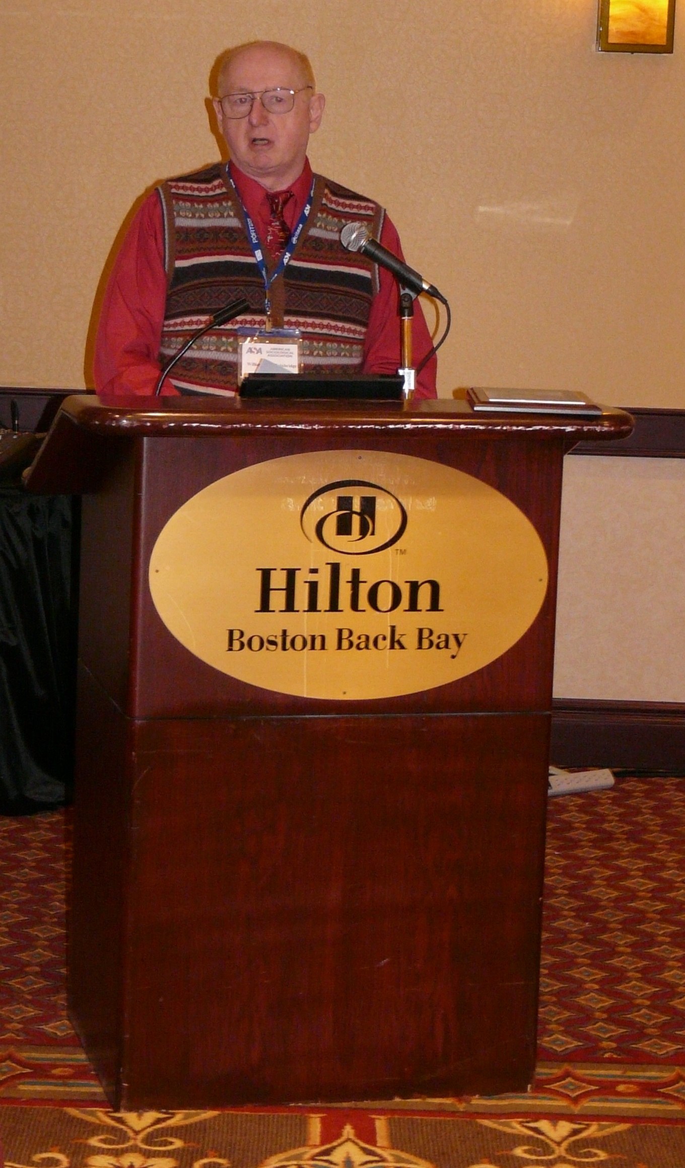 Boston. American Sociological Association conference. William Sims Bainbridge. Award ceremony for William Sims Bainbridge held by the CITASA section of ASA.